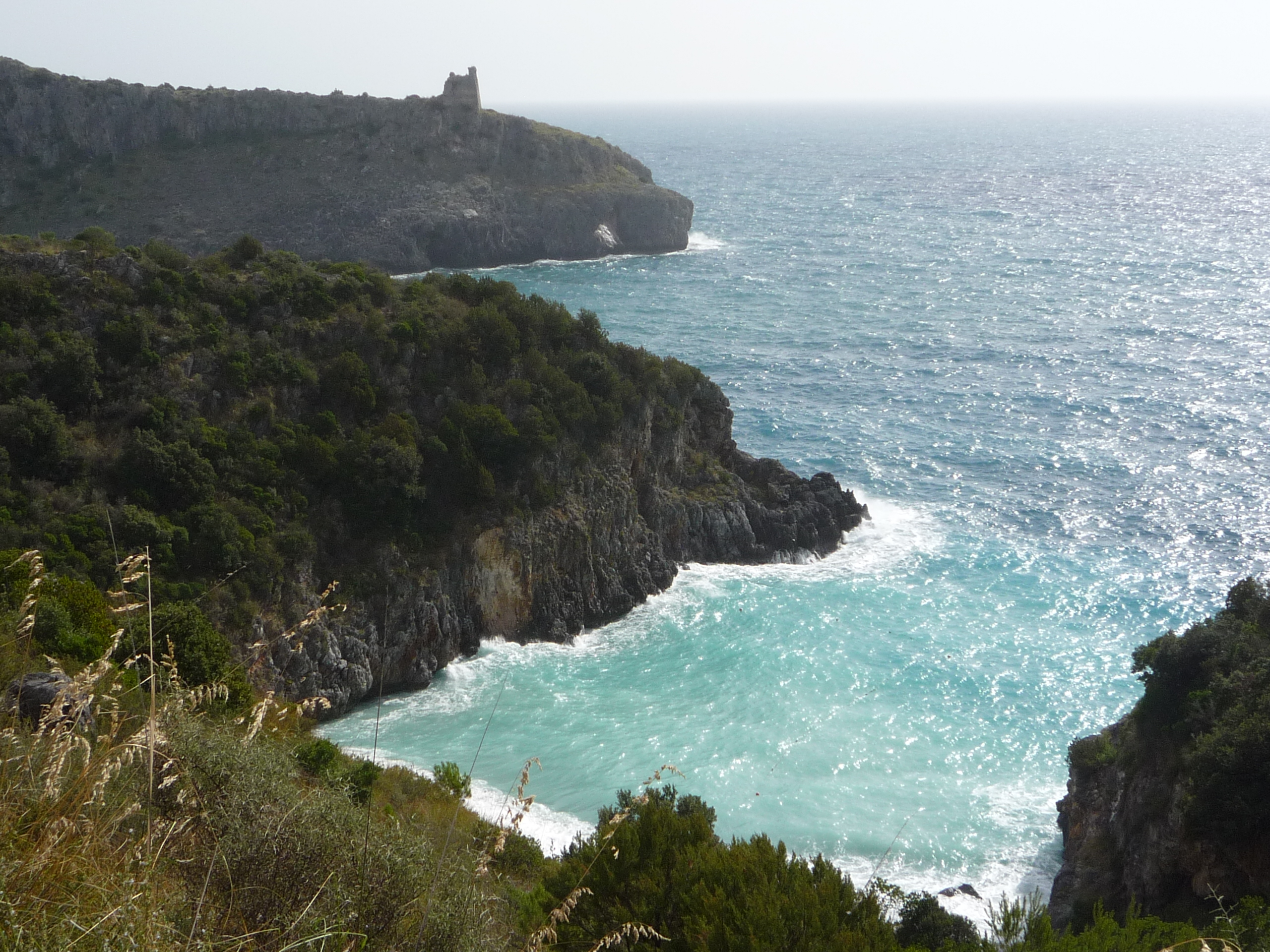 Coast near Marina di Camerota, Cilento, — in Campania - Italy. In Cilento and Vallo di Diano National Park.